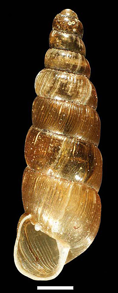 Photo of an apertural view of a shell of Balea perversa. Locality: Norway, Telemark, Vråvannet. Scale bar is 1 mm.